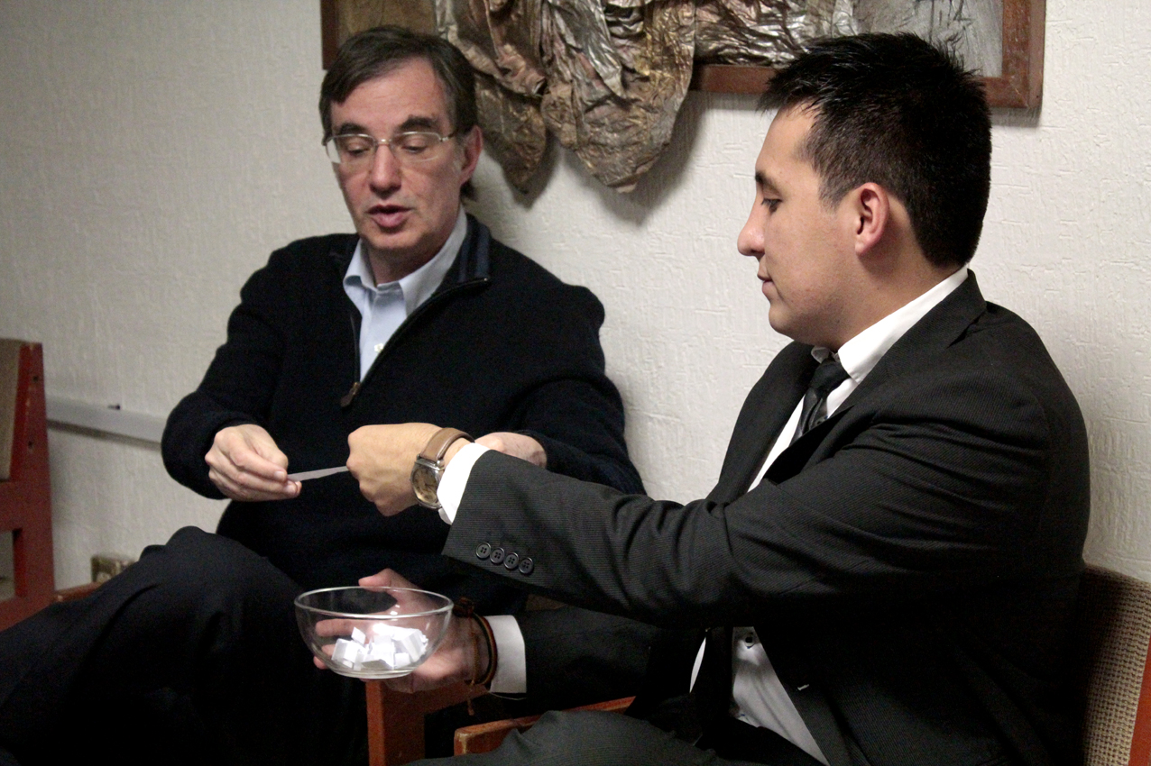 Muricio FigueroA